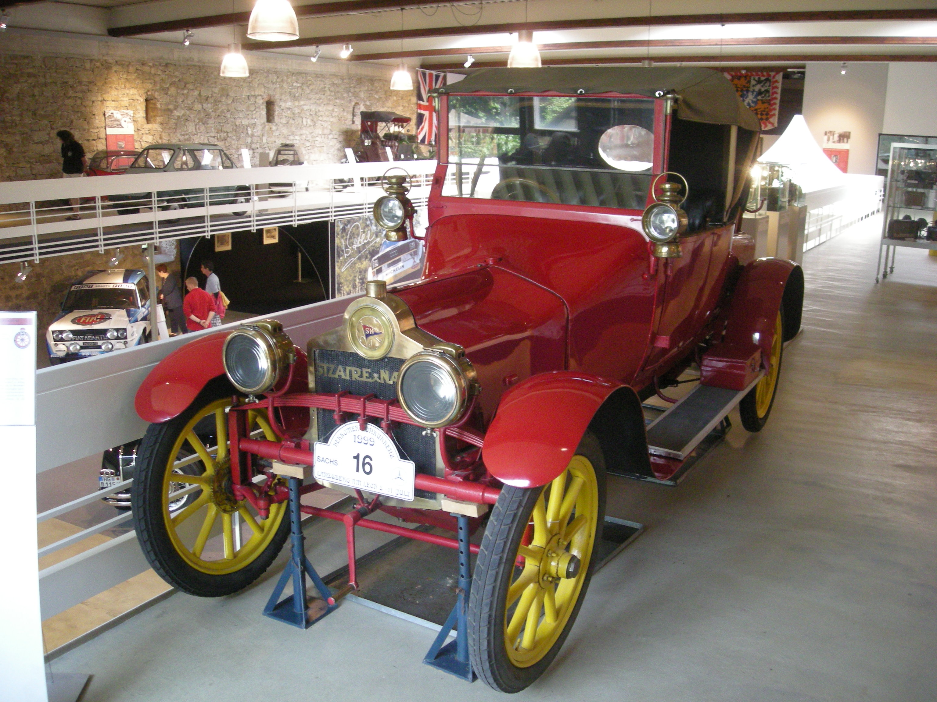 A 1910 Sizaire Naudin 4 inside the Deutsches Automuseum in Langenburg, Baden-Württemberg (Germany).